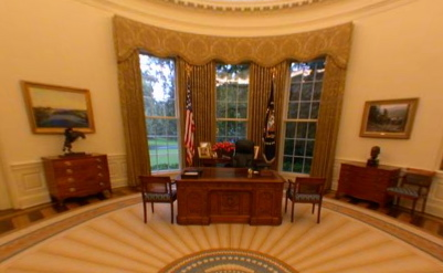 Oval Office from panorama at